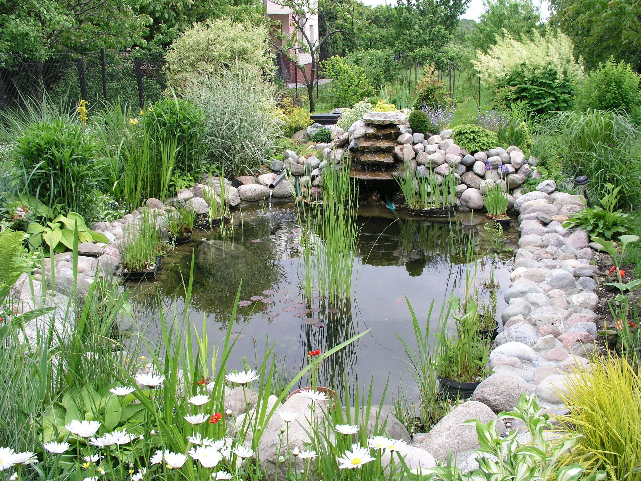 A picture of a pond in a residential garden.